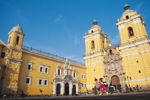 San Francisco Church (Monastery and Catacombs)